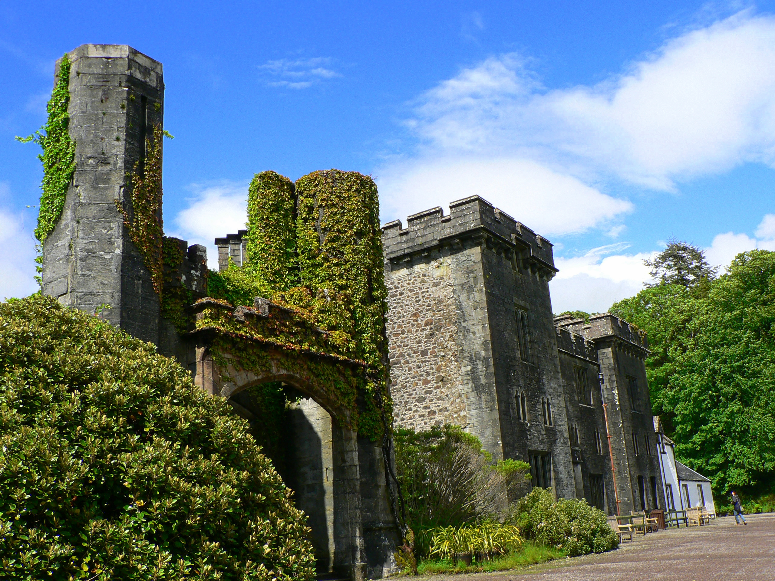 Armadale castle, Skye, Scotland Author: Wojsyl, 2006